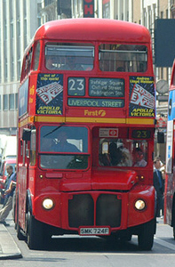 First Centrewest Routemaster bus RML2724 (reg. SMK 724F) operating route 23, pictured heading east along Strand, London, waiting for the traffic lights at the corner with the (pedestrianised) Southampton Street (to the right), en route to Liverpool Street.